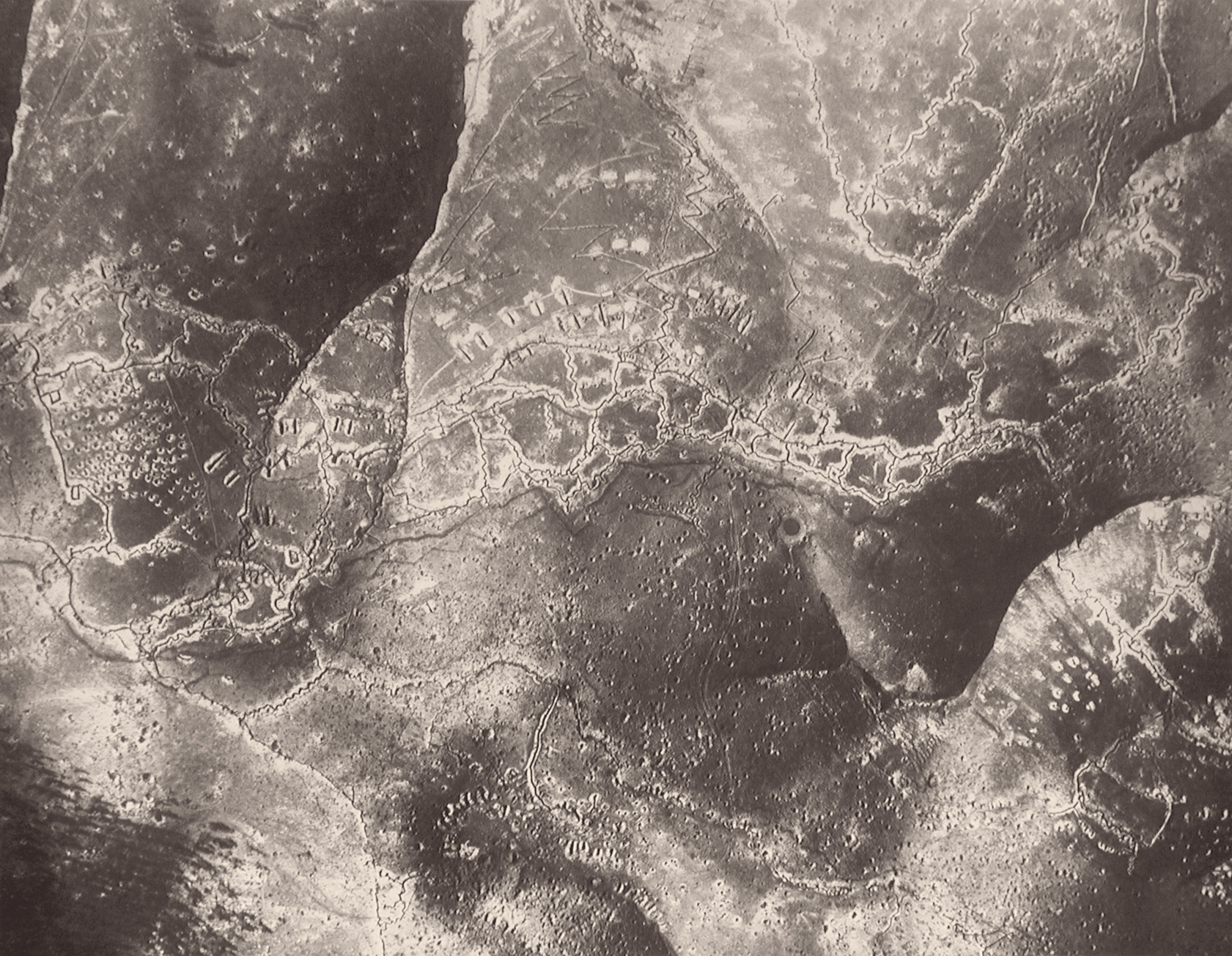 World War 1 - Italian Army: Battle of the Piave River - Monte Grappa area - aerial photo of the Austrian trenches on the Asolone